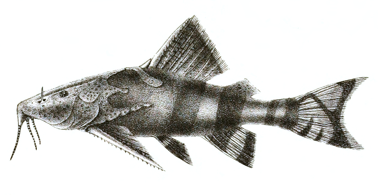 Hara hara syn. Erethistes haraThe species names / identity need verification. The original plates showed the fishes facing right and have been flipped here. Erethistes hara